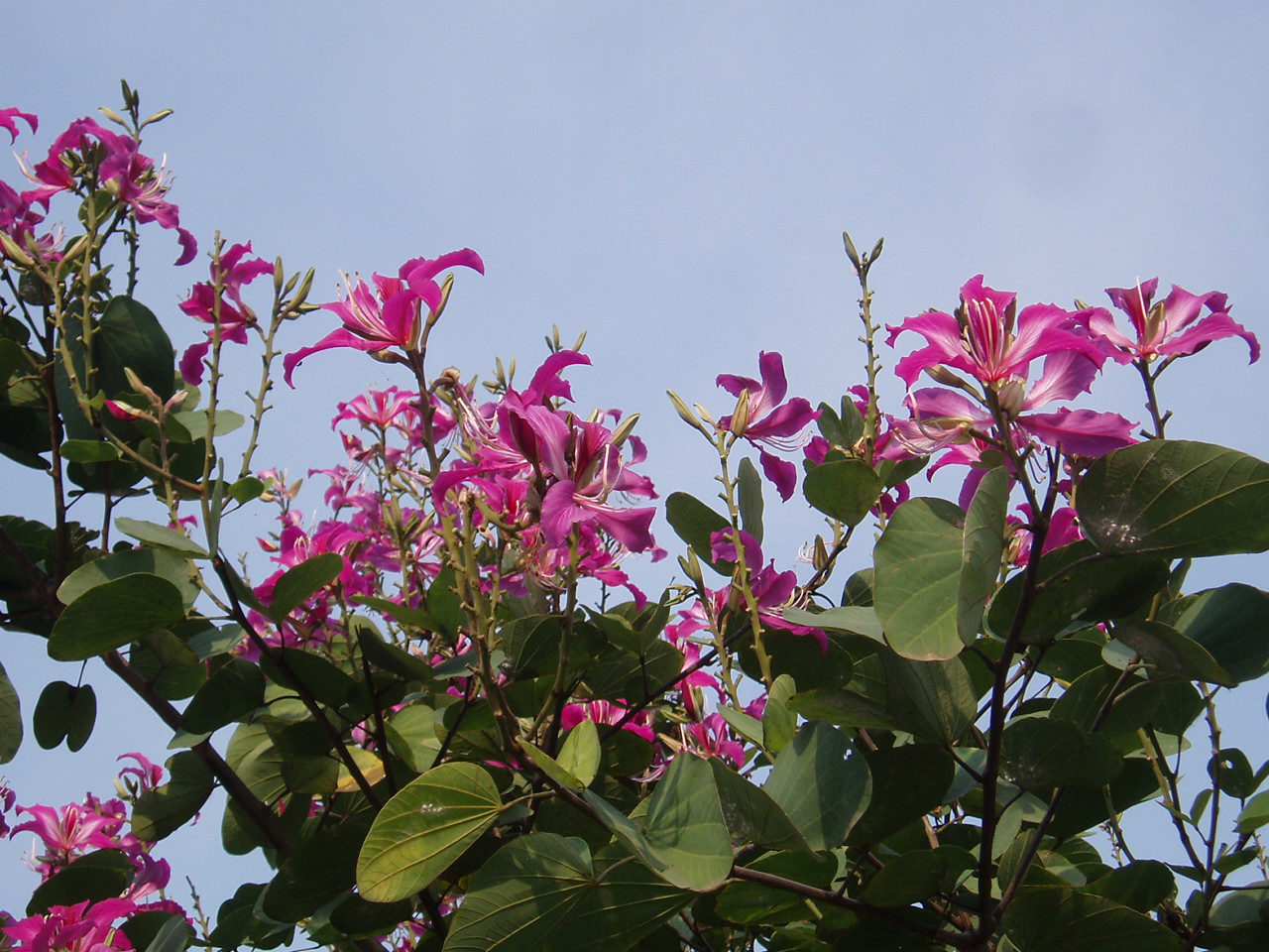 Purple Camel's foot tree or Butterfly tree is beautiful tree with purple-pink flowers, This tree was photographed at Pune.